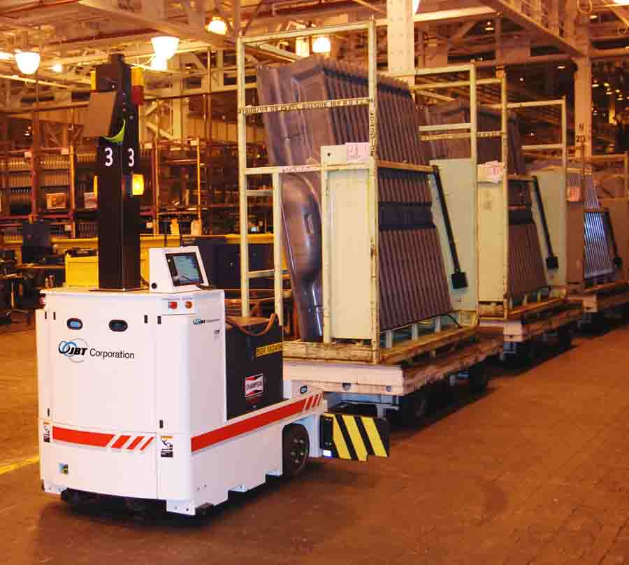 Photo taken from the JBT Corporation Photo Archives